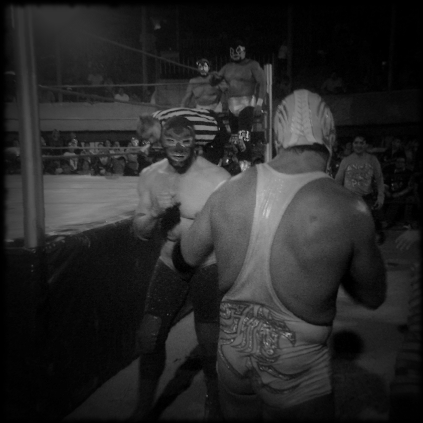 Mexican wrestler/luchador Dos Caras Sr (left)